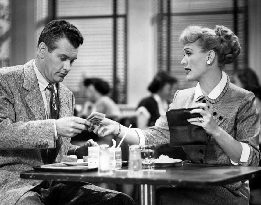 Photo from the television program Our Miss Brooks. Pictured are Eve Arden (Connie Brooks) and Robert Rockwell (Phillip Boynton).